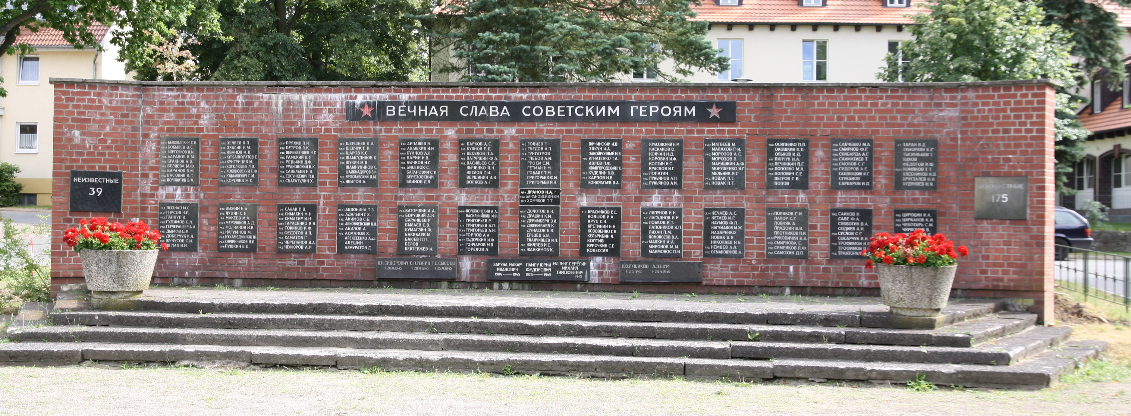 Soviet War Memorial in Miersdorf, Zeuthen.